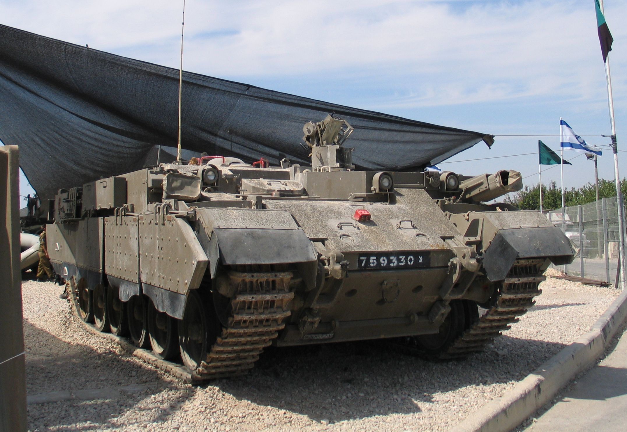 IDF Puma, demonstrated at Israel's 60th Independence Day exhibition in Yad la-Shiryon Museum, Israel.